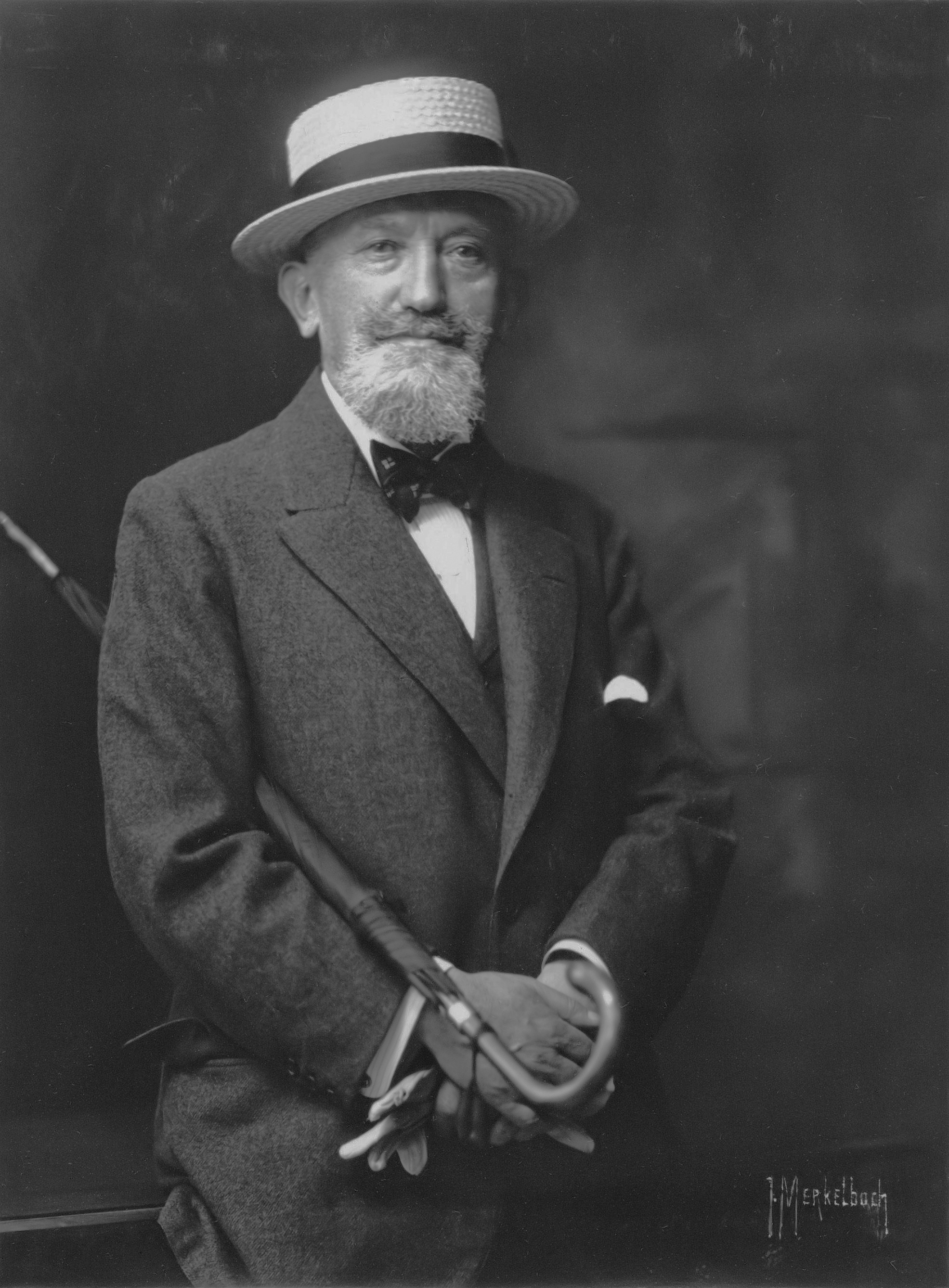 Sylvain Kahn (1857-1929) Directeur N.V. Hirsch & Cie. 1916